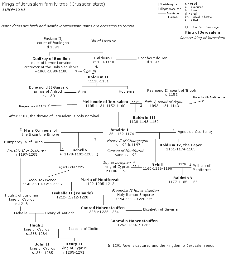 Family tree for the kings of Crusader Jerusalem (1099-1291)